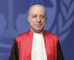 Fausto Pocar, judge to the International Criminal Tribunal for the Former Yugoslavia.